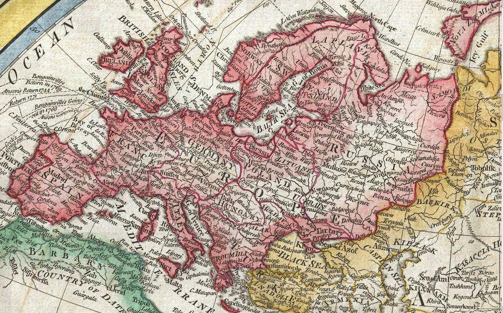 Map of Europe in 1794 Samuel Dunn Map of the World in Hemispheres